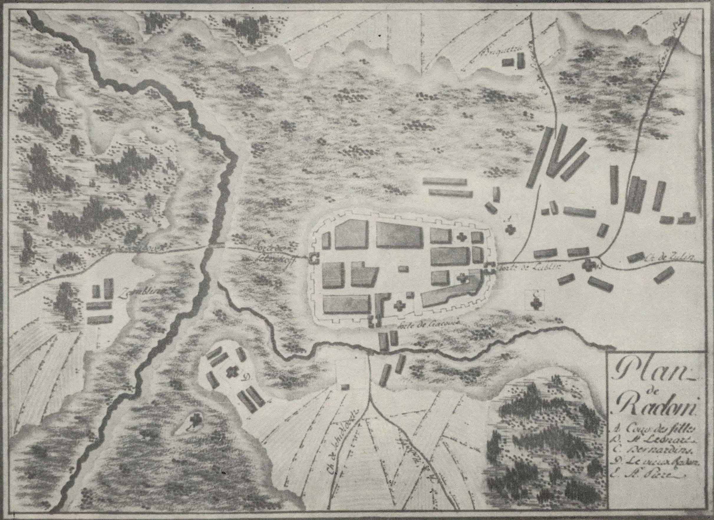 Plan od Radom, Poland (18th century)